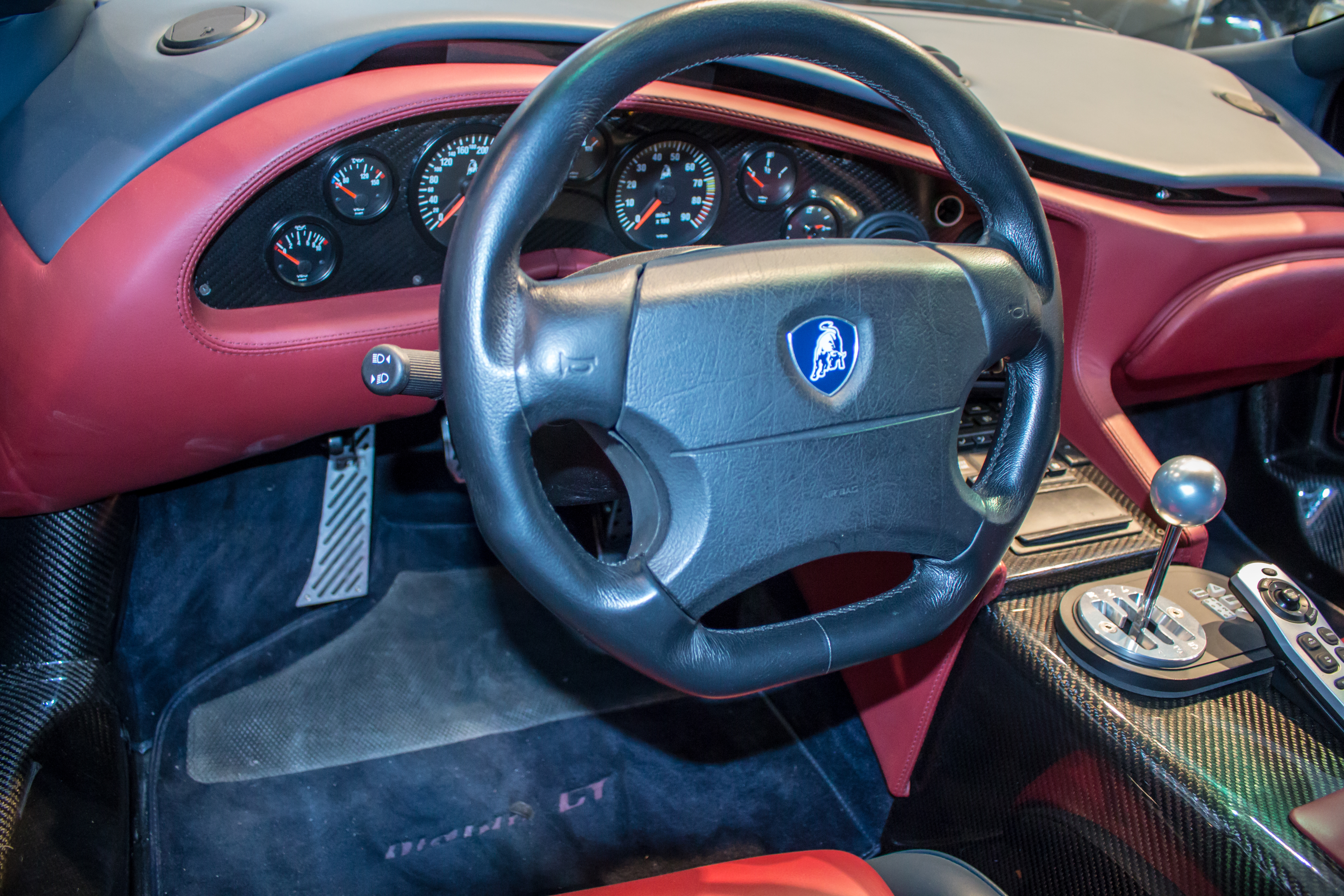 Techno Classica 2018, Essen